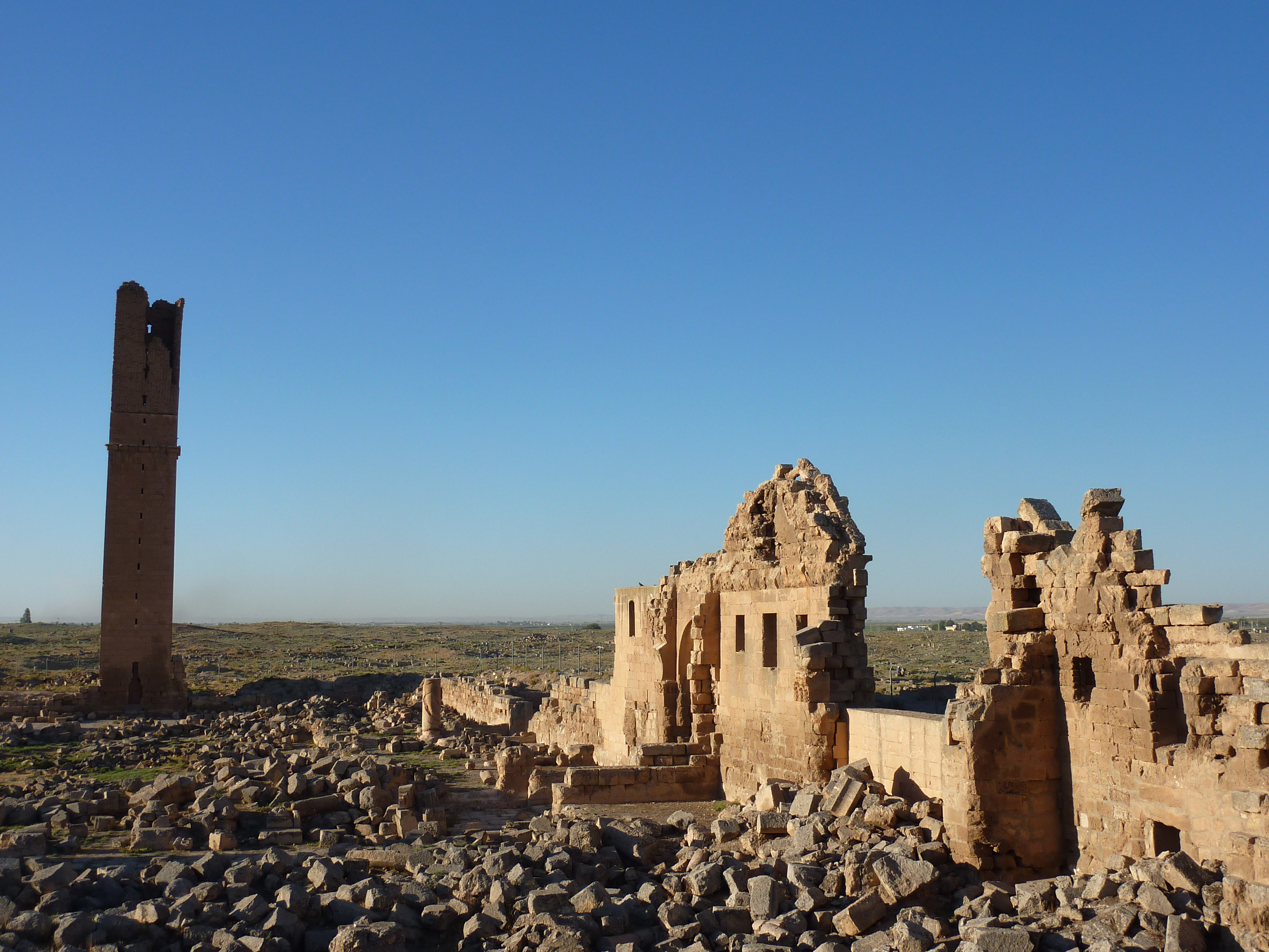 Ruins of Harran University